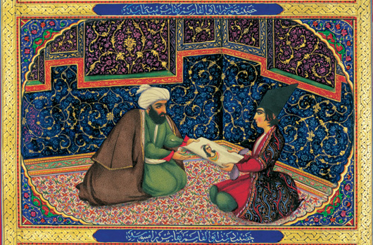 Illustration from "One Thousand and One Nights"